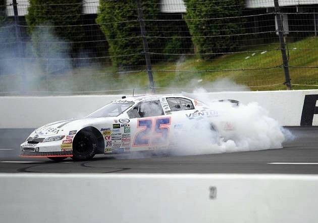 2012 Pocono Burnout